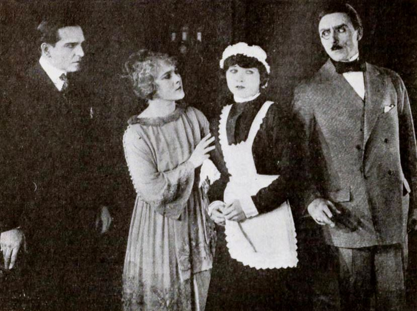 Still for the American film The Usurper (1919) with Earle Williams, Louise Lovely, an unidentified actress, and Frank Leigh, on page 48 of the May 10, 1919 Exhibitors Herald.